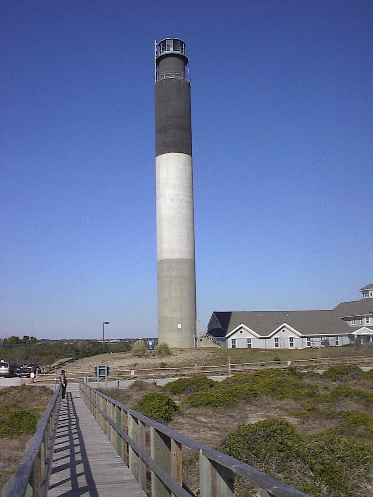 View from the beach access walkway of the OI Lighthouse